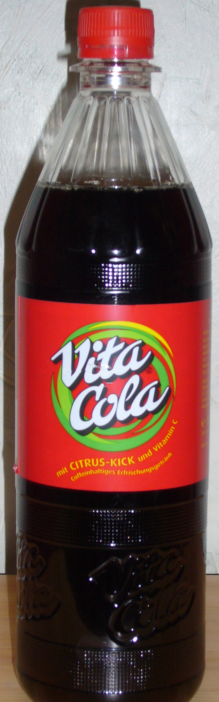 Vita Cola bottle